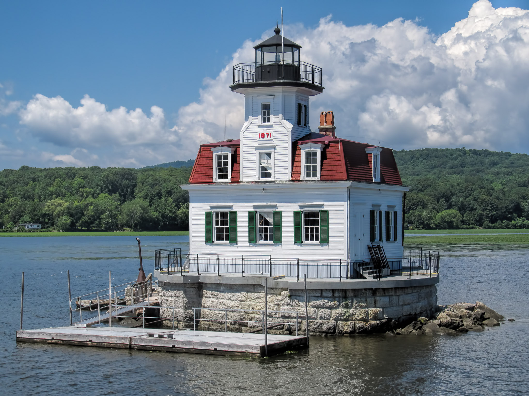 Esopus Meadows Lighthouse, in the Hudson River between Esopus and Port Ewen, New York